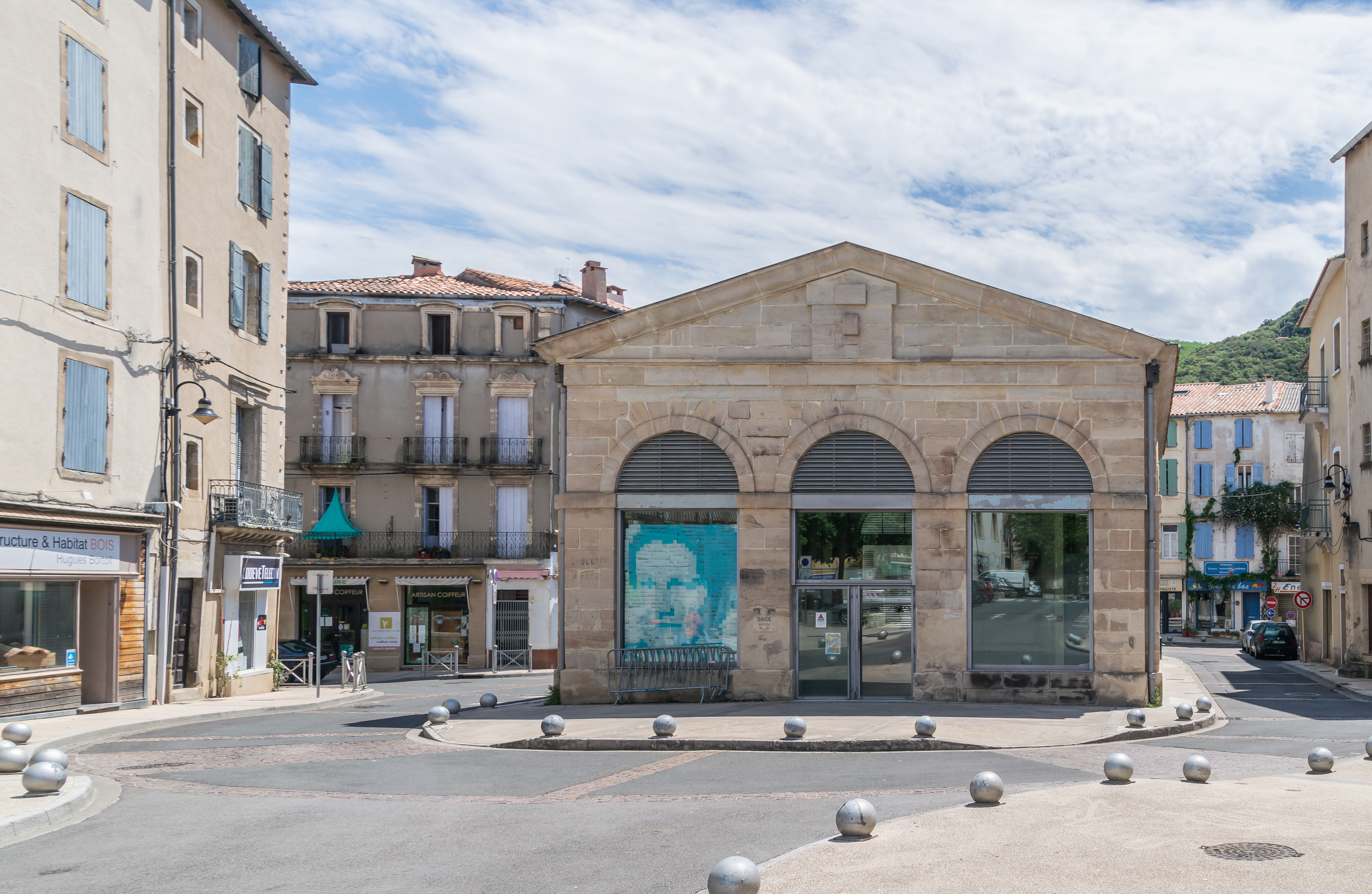 Halle Dardé in Lodève, Hérault, France .